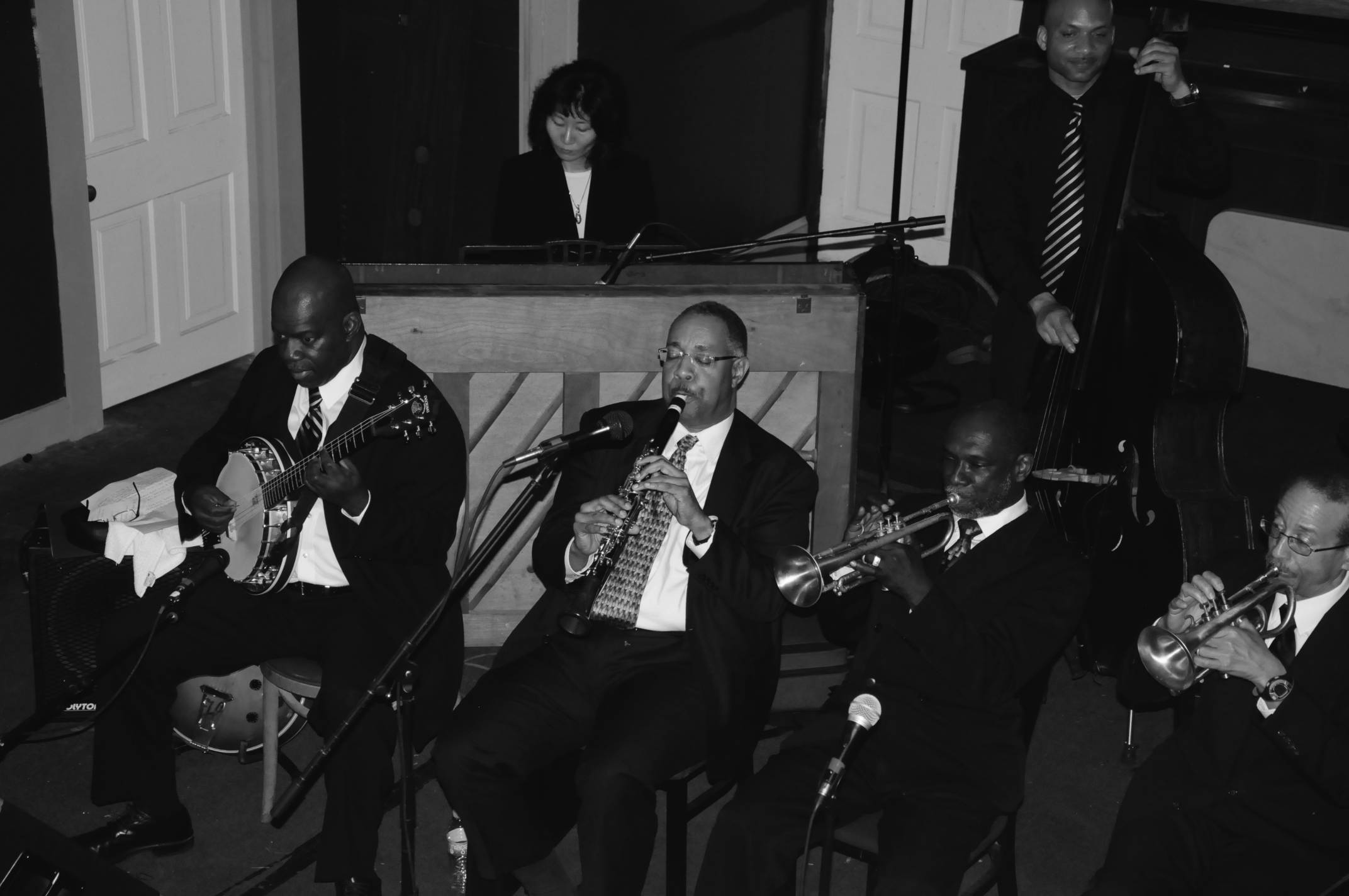 New Orleans, March 2010. Jazz dance at "Maison", 508 Frenchmen Street Detroit Brooks on banjo, Dr. Michael White on clarinet, Gregg Stafford, trumpet.